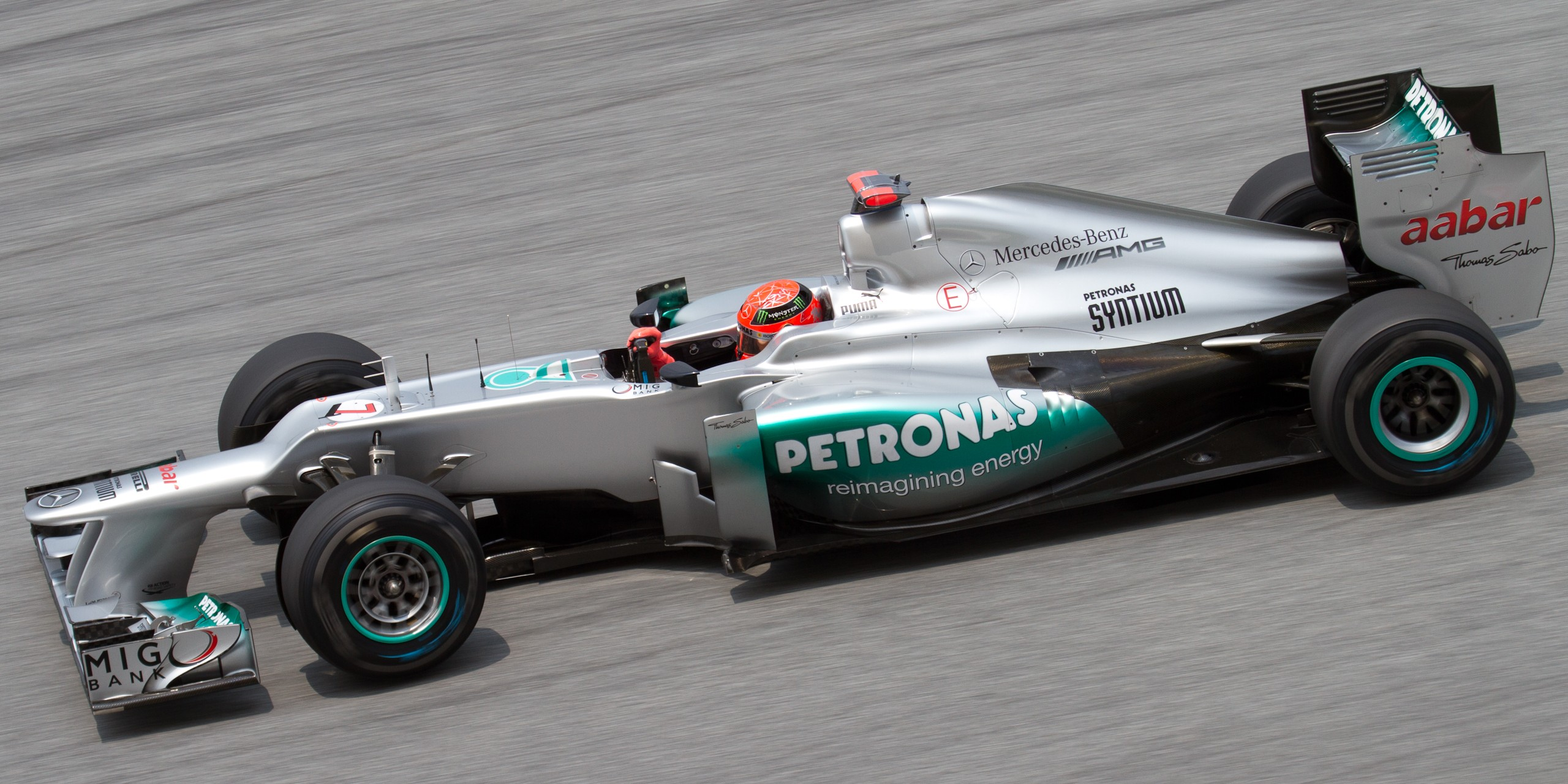 Formula One 2012 Rd.2 Malaysian GP: Michael Schumacher (Mercedes) during the second practice session on Friday.